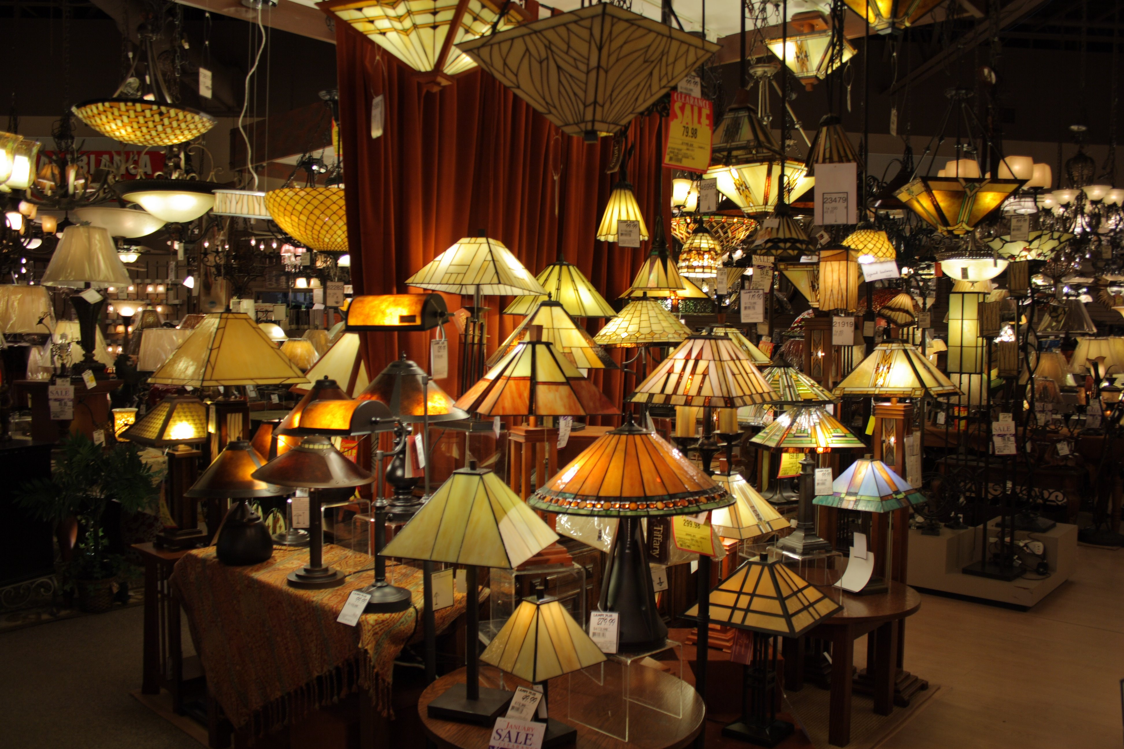 A wide array of lamps and light fixtures on display at a Lamps Plus store in Plano, Texas